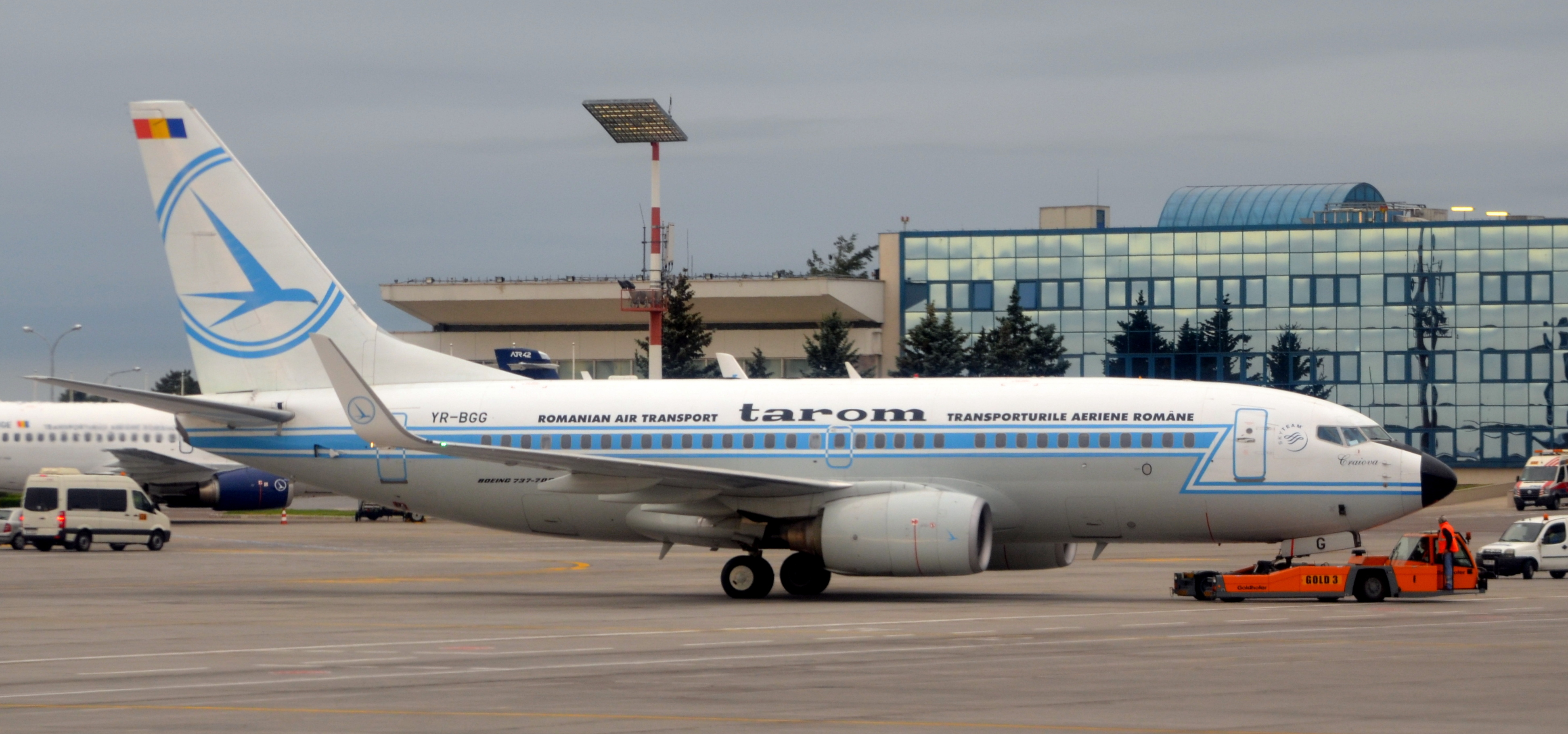 Boeing 737-78J (Tarom YR-BGG), at Bucharest Otopeni Airport